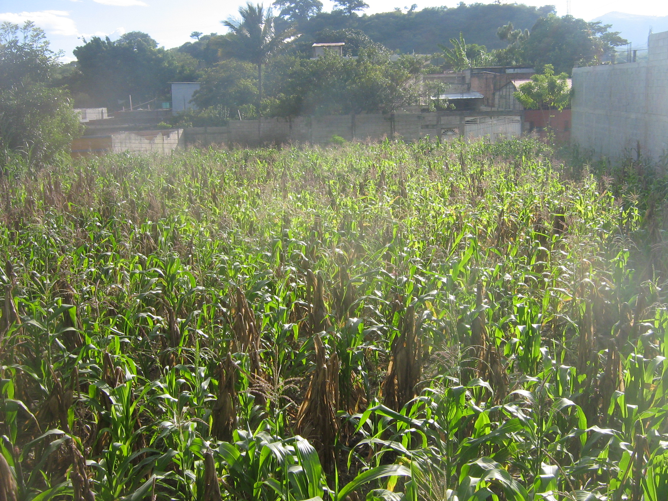 Maize crop El Progreso Jutiapa.